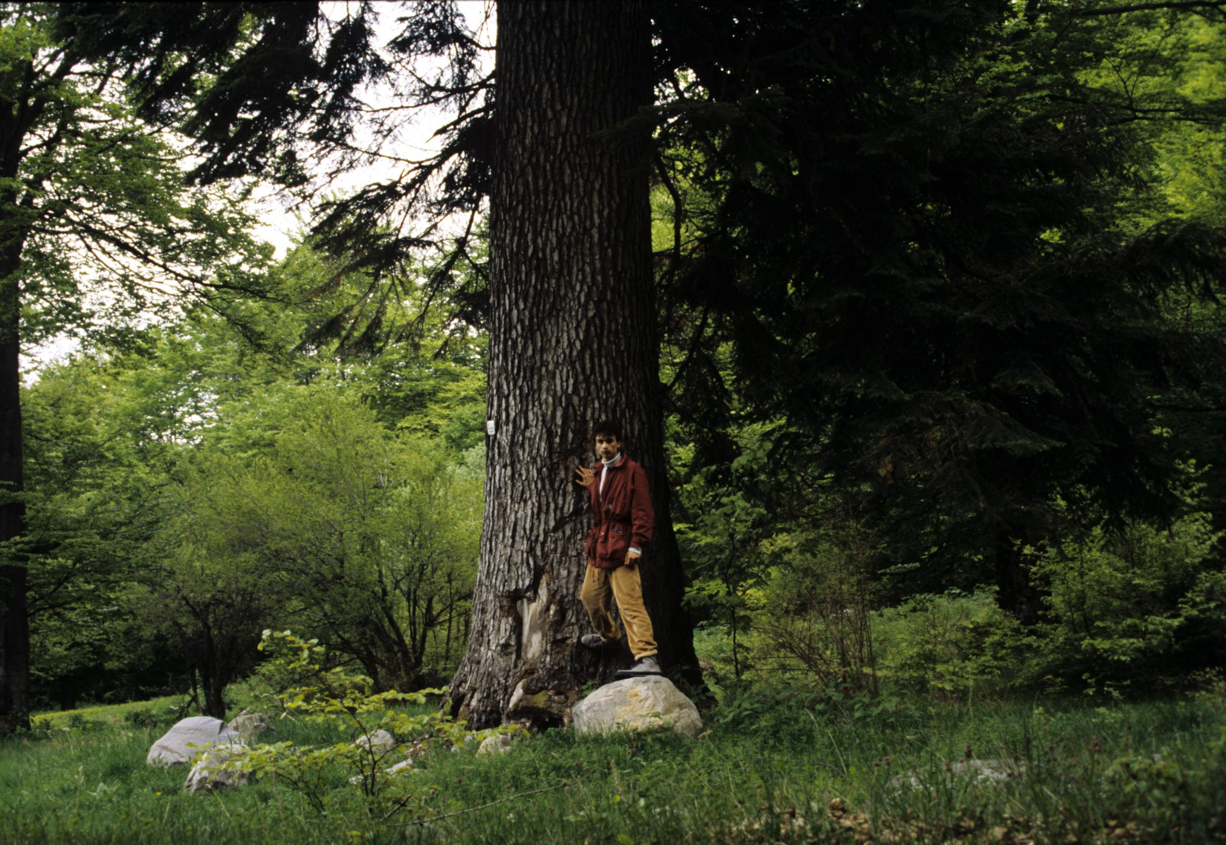 Abies borisii-regis Pirin mountain, Bulgaria. Vekovno drvo named specimen in the northern Pirin. Copyright (c) 1995 Pavle Cikovac. Abies borisii-regis Pirin mountain, Bulgaria. Vekovno drvo named specimen in the northern Pirin. Copyright (c) 1995 Pavle Cikovac.